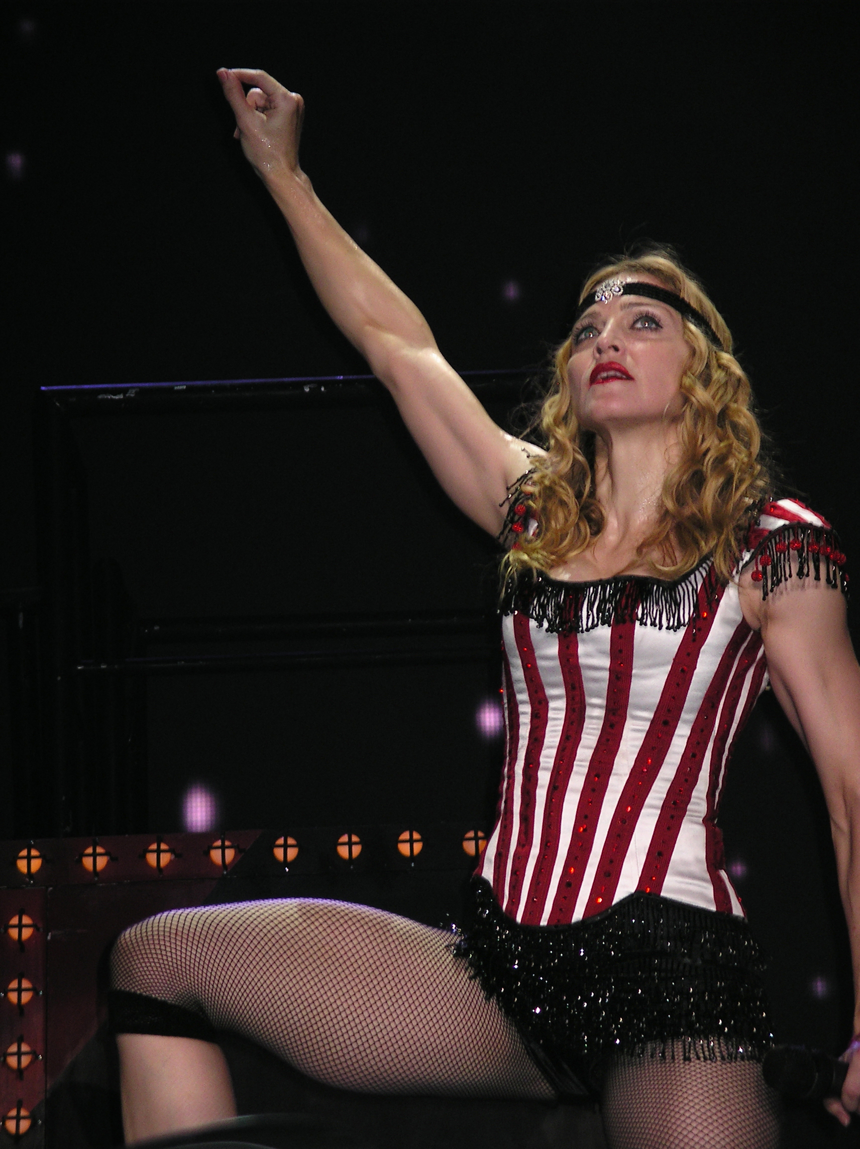 Madonna during her concert in Paris, France, as part of her Re-Invention World Tour on September 2, 2004.